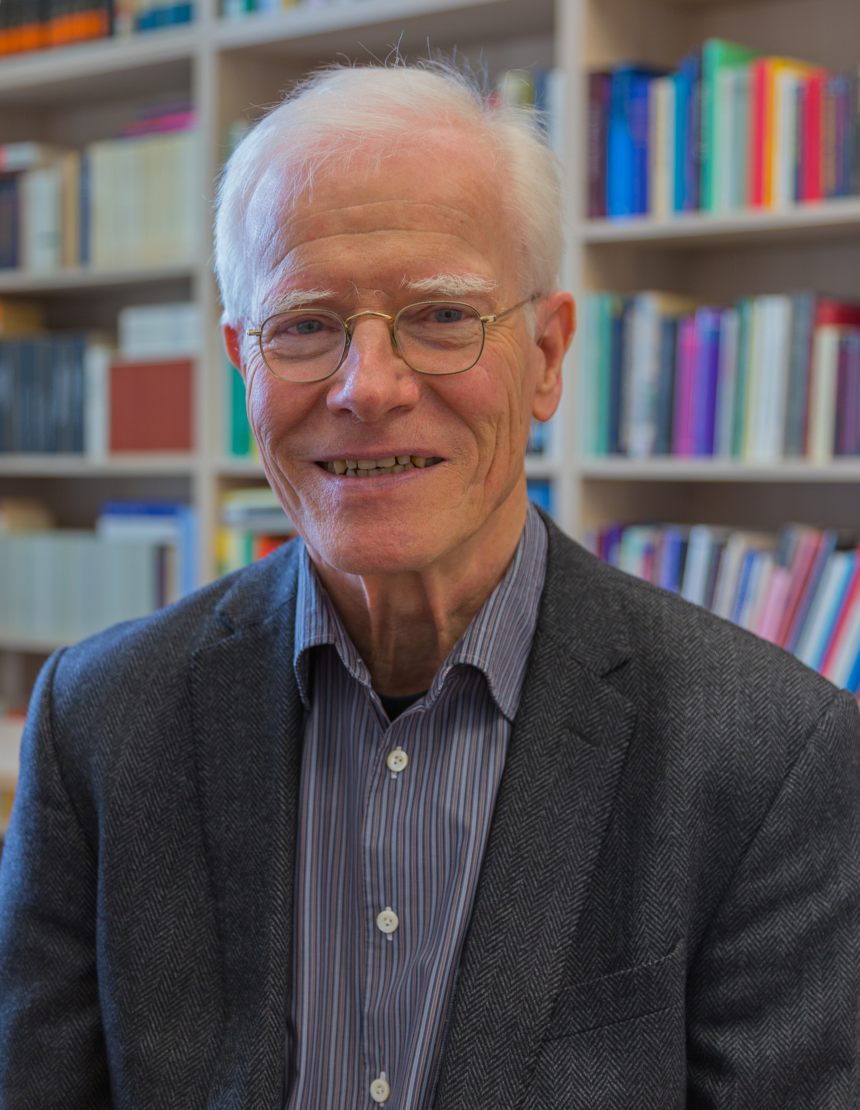 German philosopher Dr. Ludwig Siep, Professor Emeritus of Philosophy at the University of Münster (Westfälische Wilhelms-Universität Münster). Picture taken in his (former) office at the third floor of the Philosophikum, 23 Cathedral Square (Domplatz 23) in the city centre of Münster, North Rhine-Westphalia, Germany.